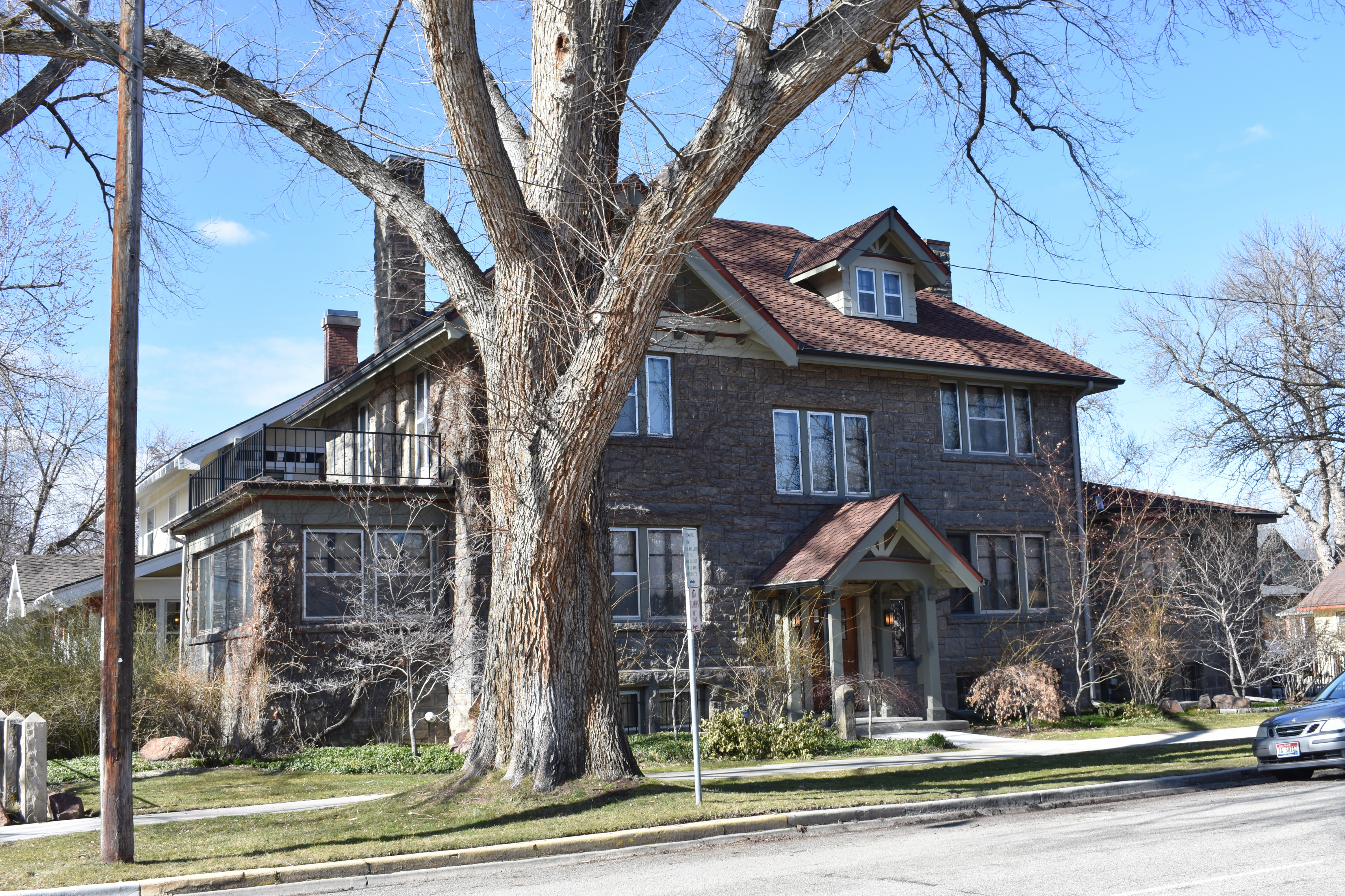 The H.R. Neitzel House (1918) in Boise, Idaho, was designed by Tourtellotte & Hummel and is listed on the National Register of Historic Places.